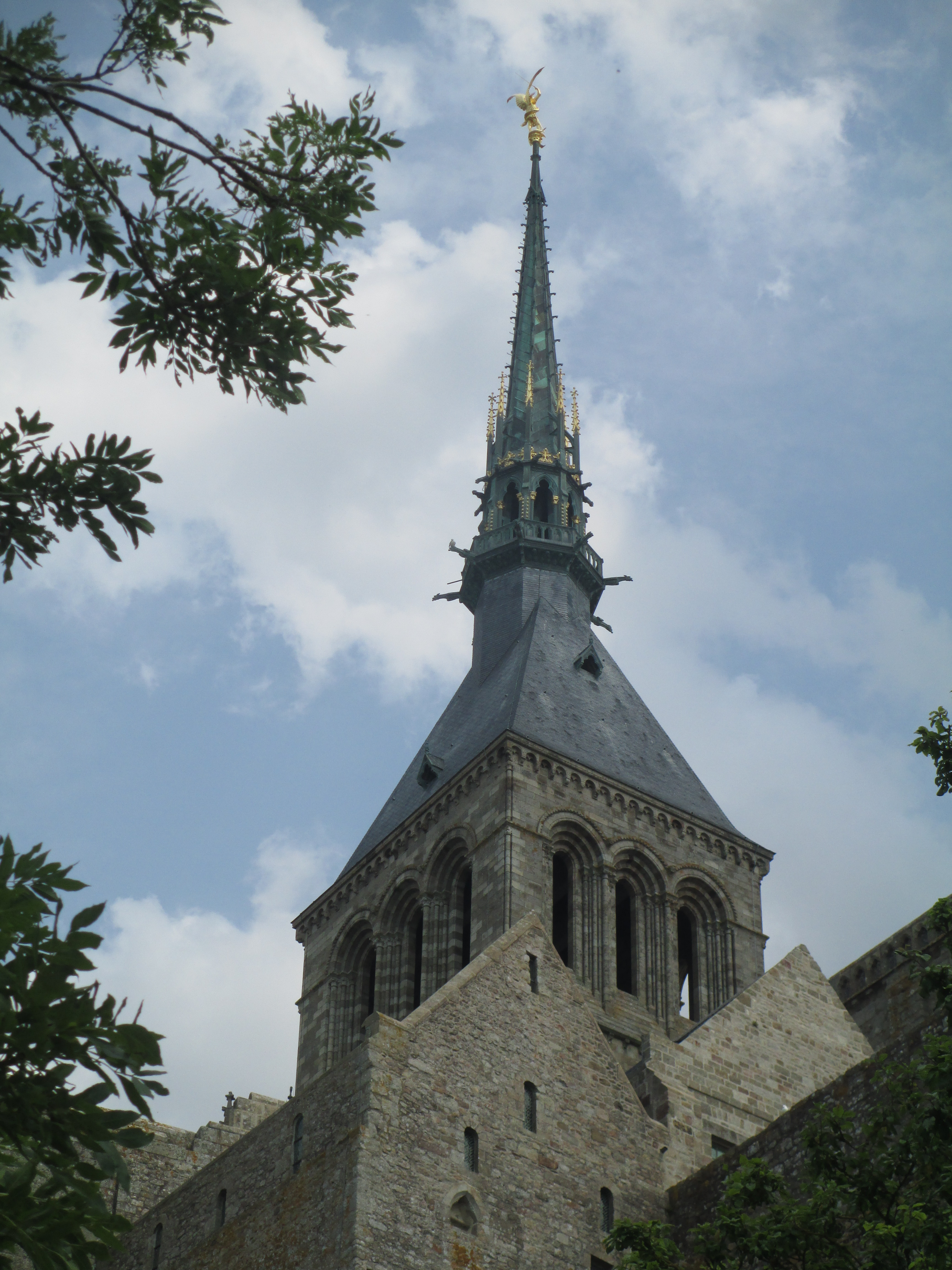 Mont Saint-Michel